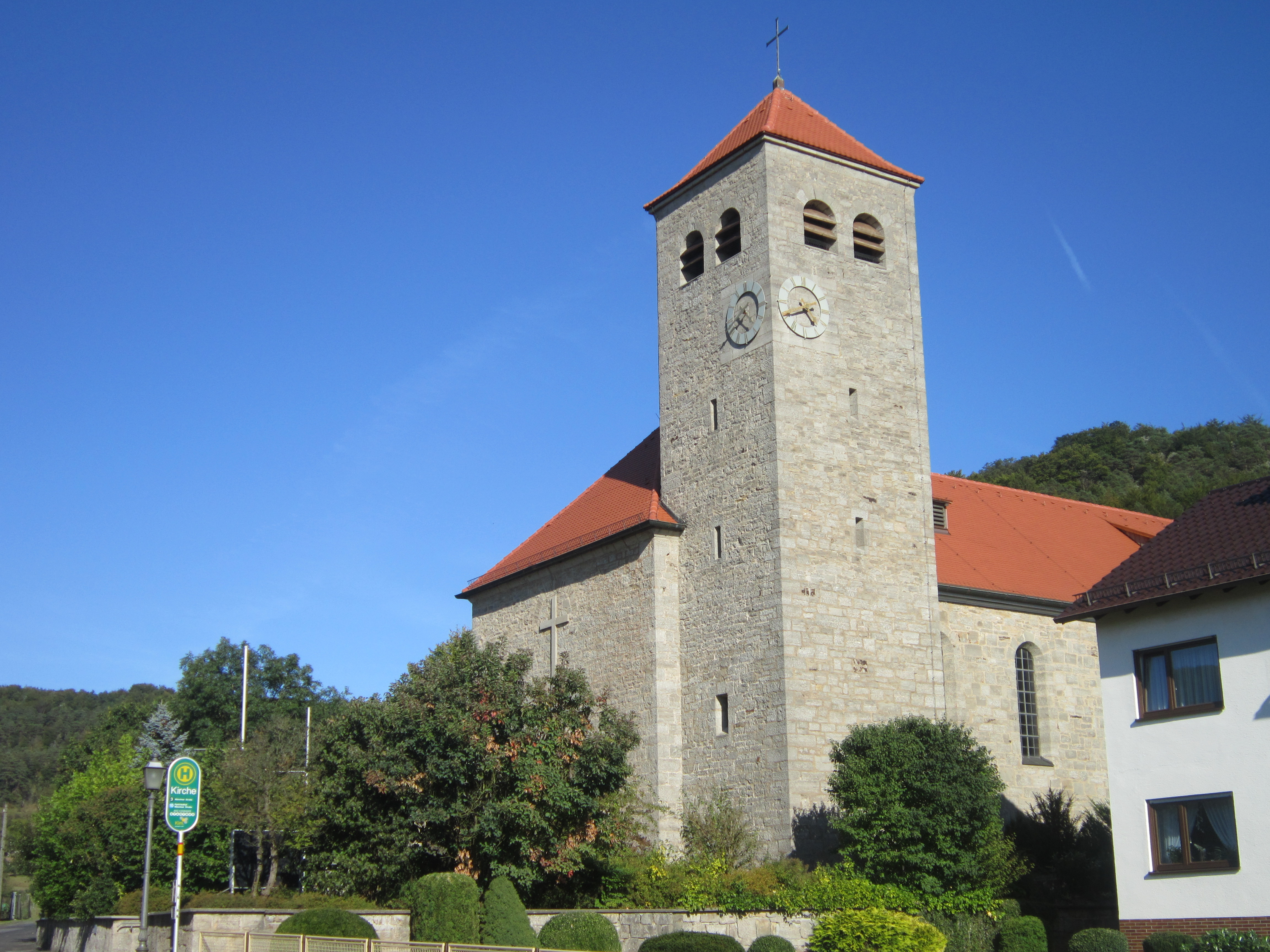 St.Bonifatius Church in Winkels, a quarter of the German spa town of Bad Kissingen in Lower Franconia (Bavaria)